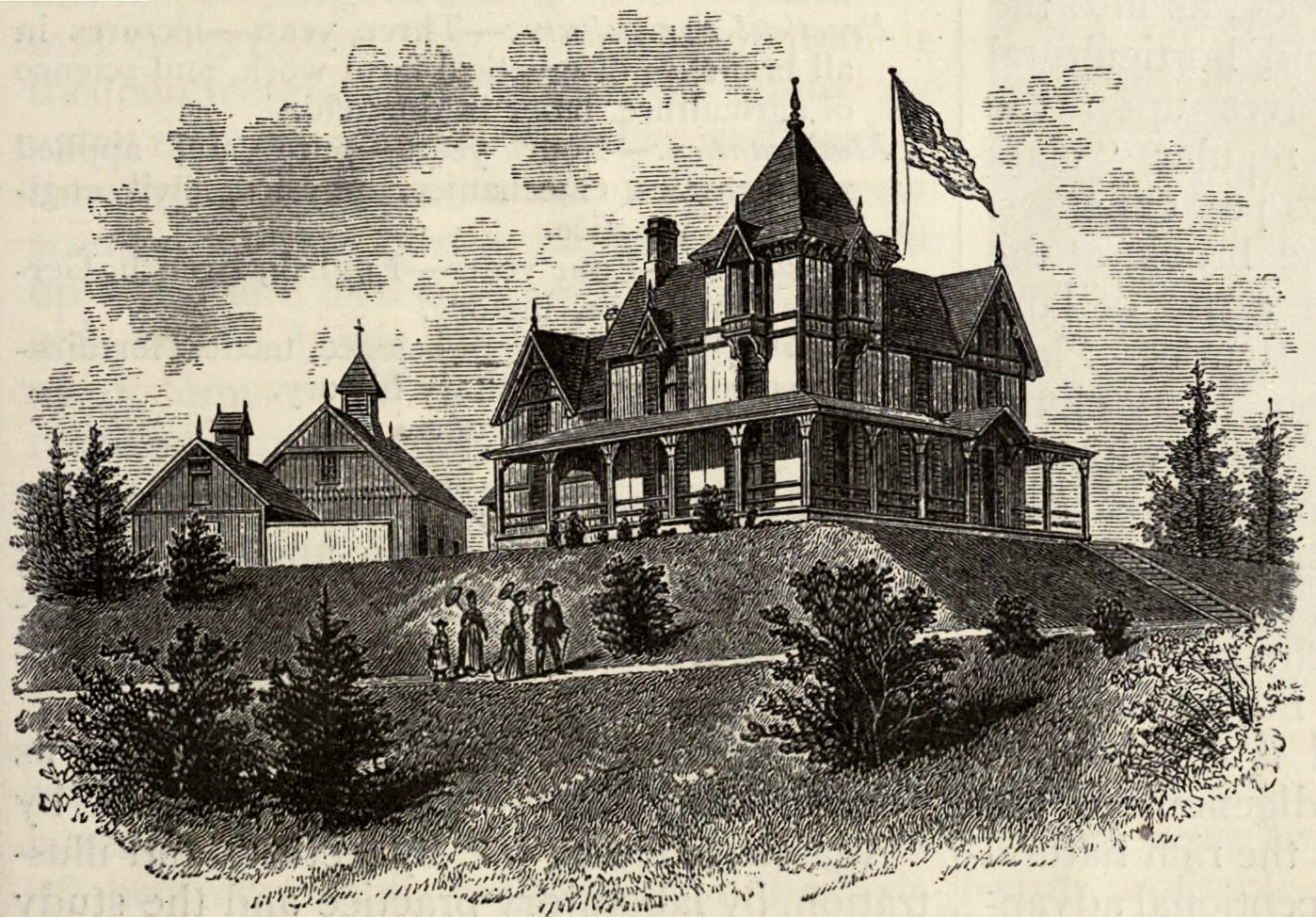 Clark's Estate as it appeared in 1875, today a memorial is where the house once stood. Massachusetts Agricultural College